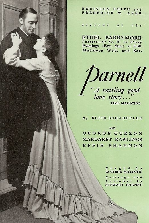 George Curzon & Margaret Rawlings in the Broadway's play Parnell (1935-36) - publicity still (cropped)